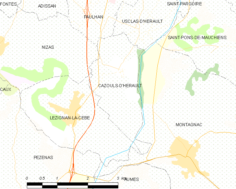 Map commune FR insee code 34068.png - Cazouls-d'Hérault